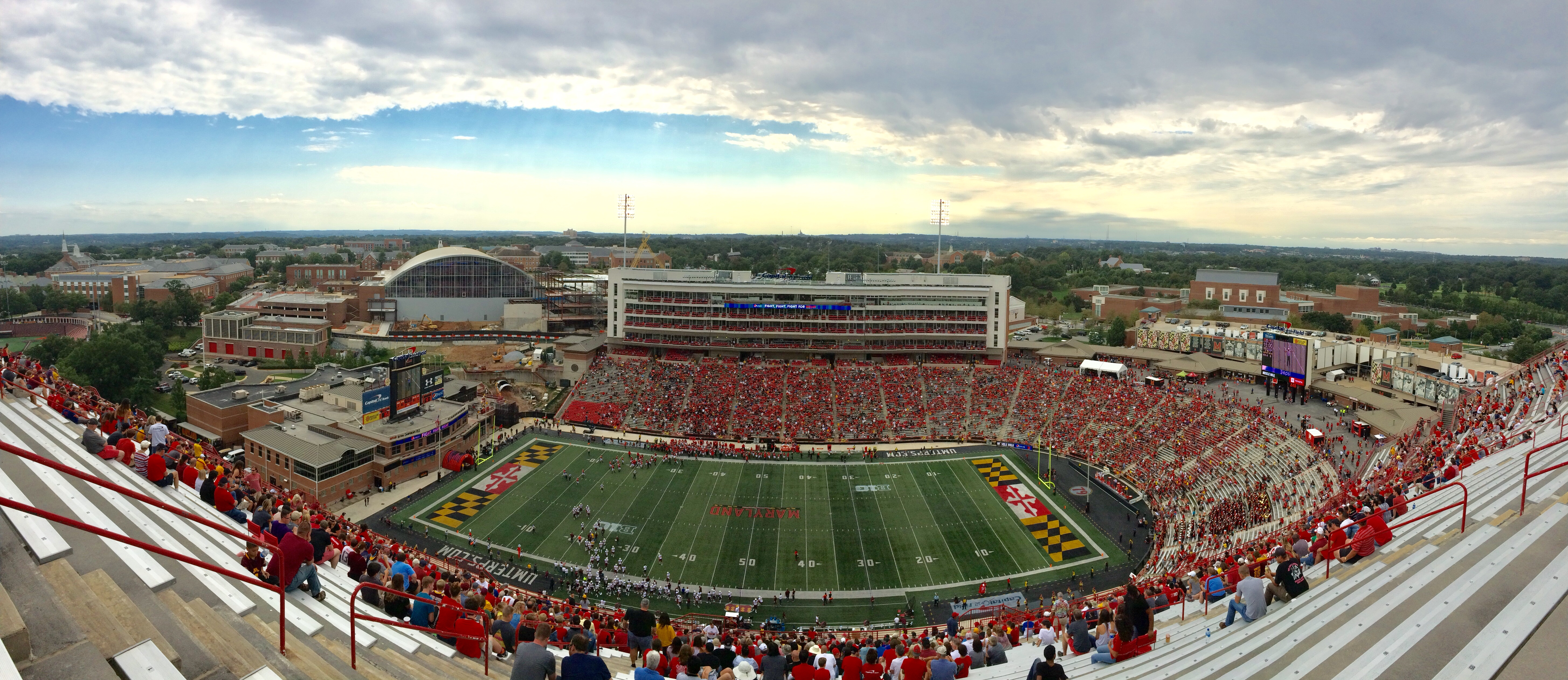 A panoramic photo from the top of Maryland Stadium during the Maryland vs. Michigan game on Saturday, September 22, 2018.